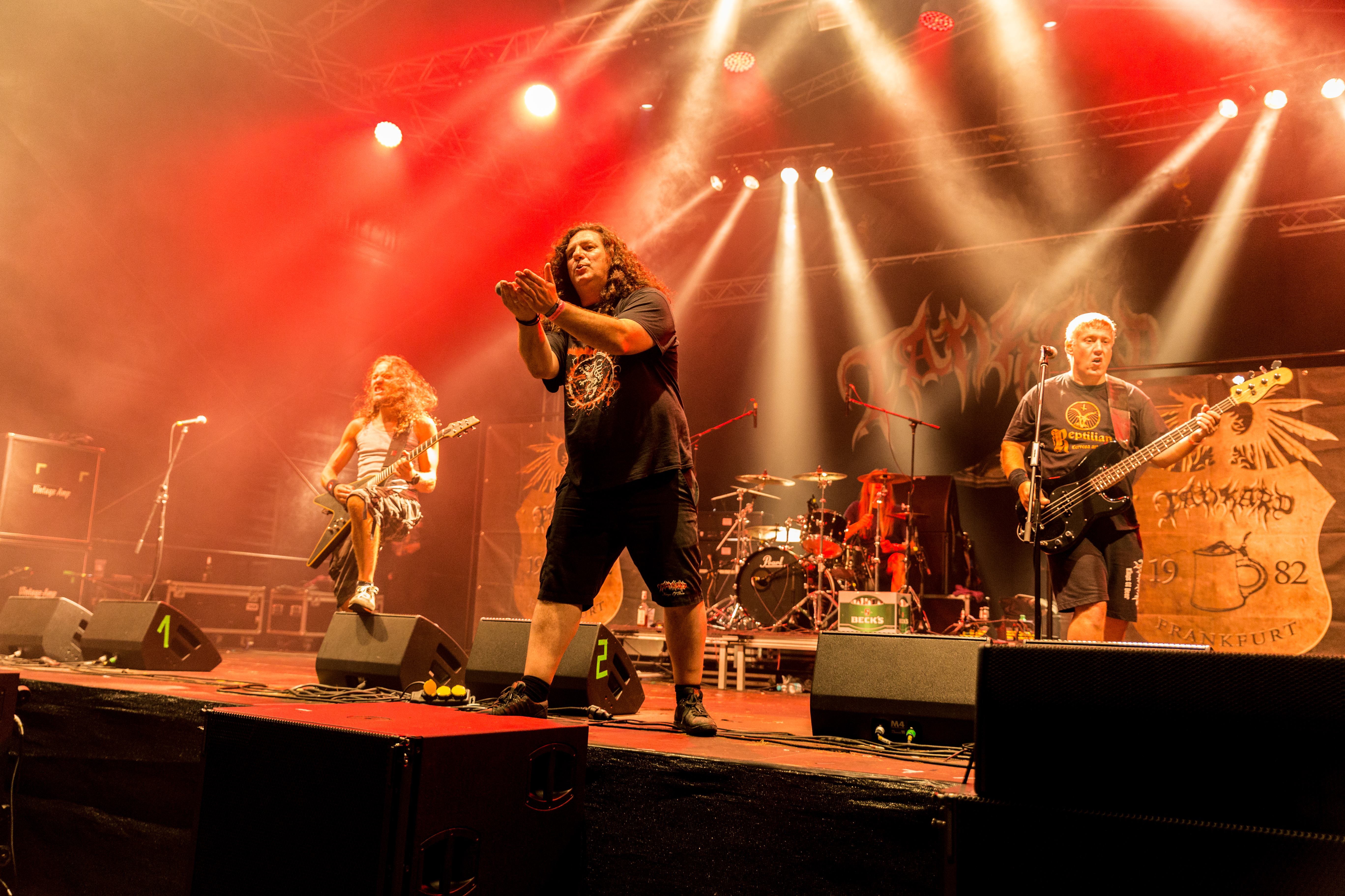 The German thrash metal band Tankard at the Metal Frenzy 2017 in Gardelegen/Germany.